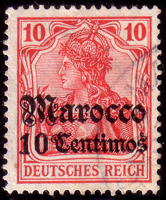 Postage stamp of German offices in Morocco, 10 centimos, 1905